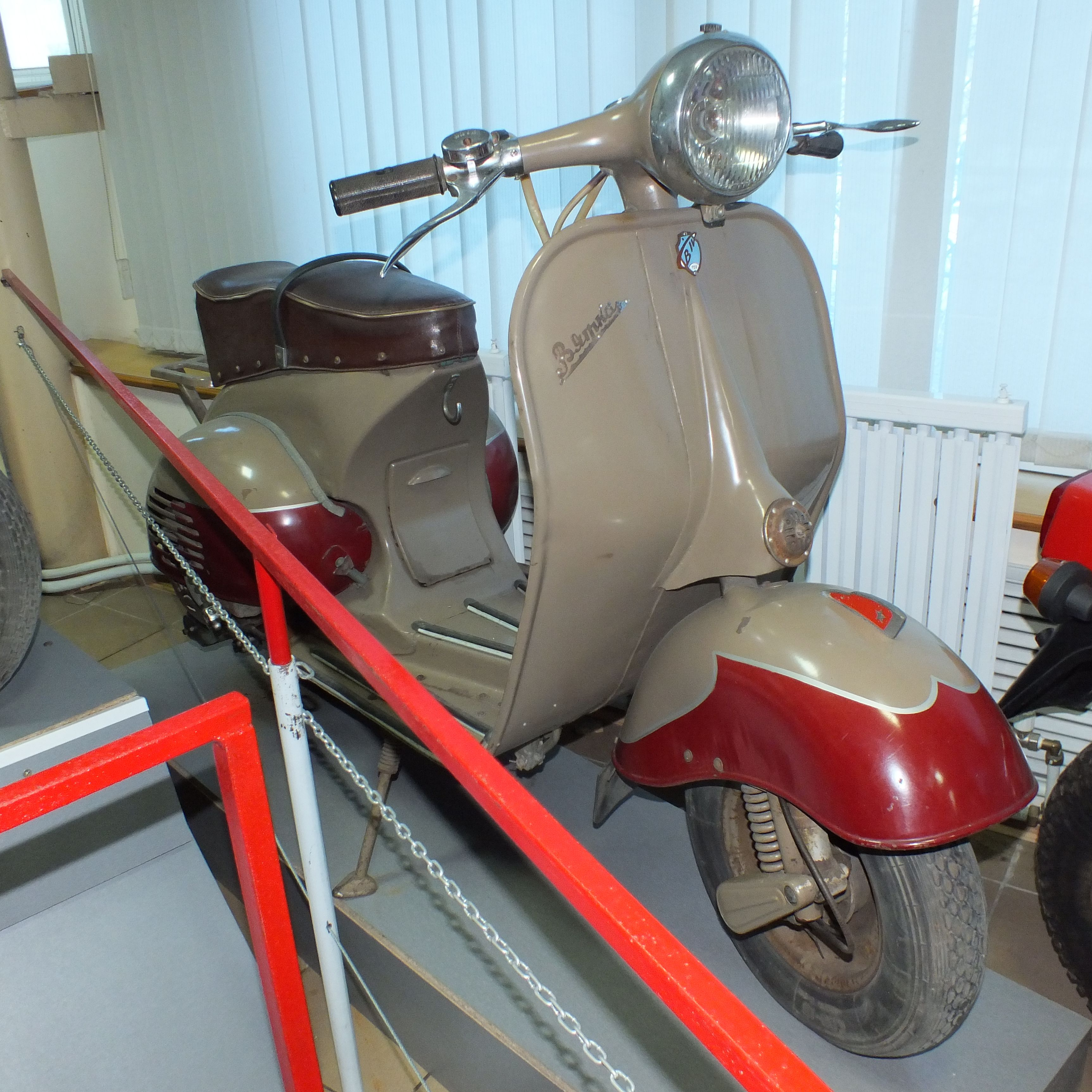 Motorcycles of Russia